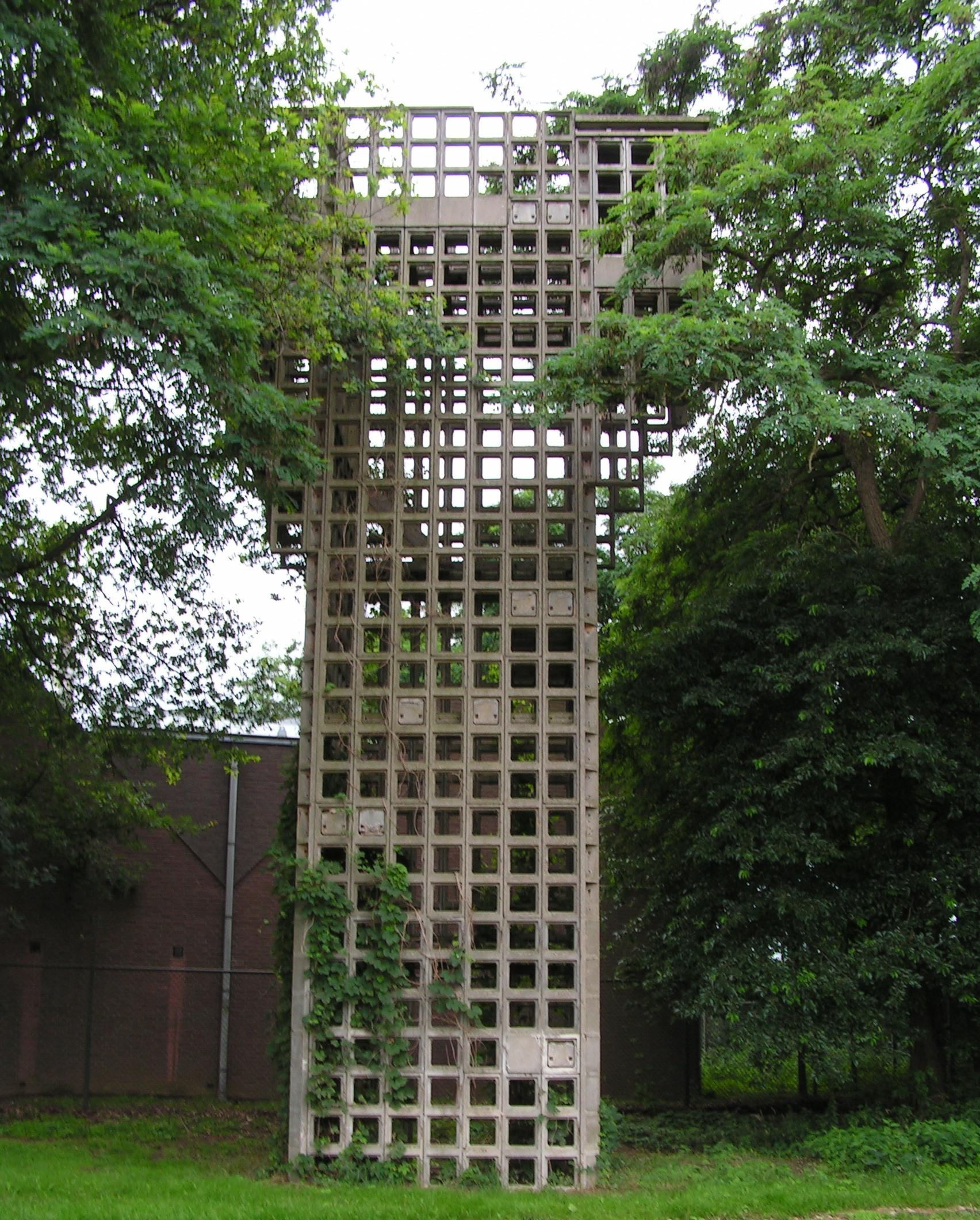 Air patrol tower 8L3 between the villages Linne and Montfort in the Netherlands. This is the only tower that actually spotted a Soviet plane.